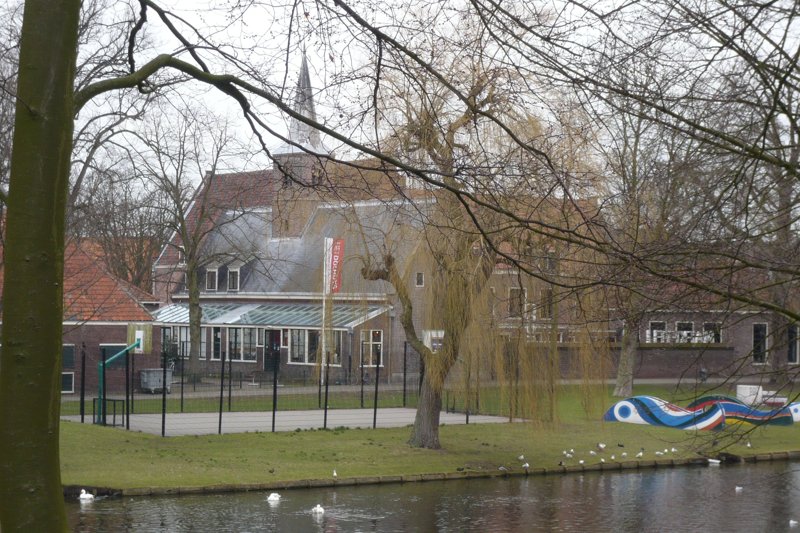 Het Dolhuys in Haarlem, former leper colony and since 2005 the Museum of Psychiatry